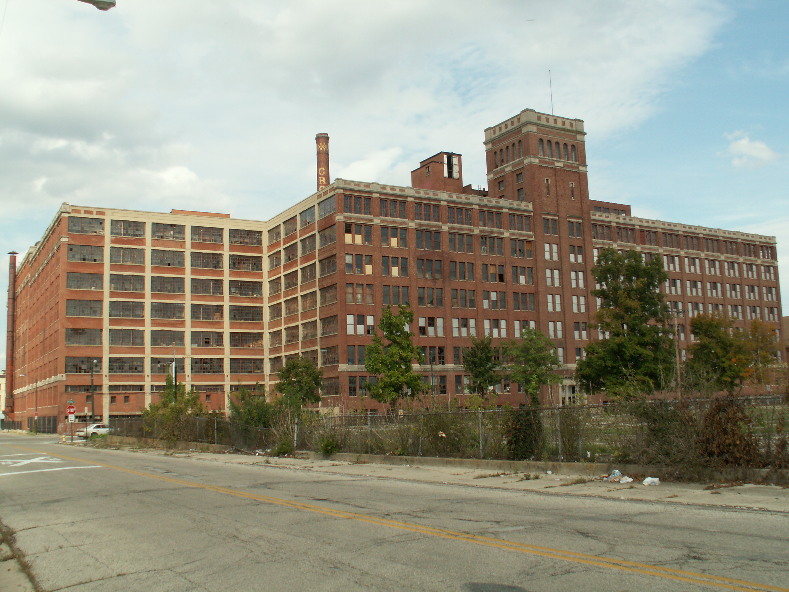 It's hard to get a photo of a building the size of a city block. I know that this venerable old building, once housing the famed publisher of Collier's Magazine. The City wants it gone. The owner, is using it for storage. It's a vestige of Springfield's once glorious industrial past.